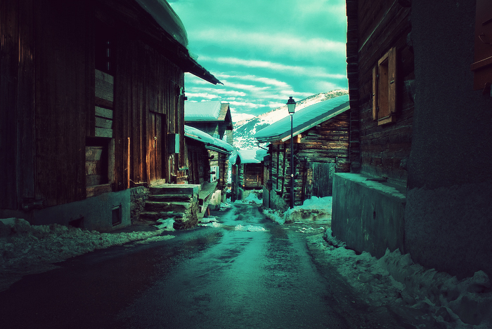 Photographs taken in the Nendaz region, Switserland